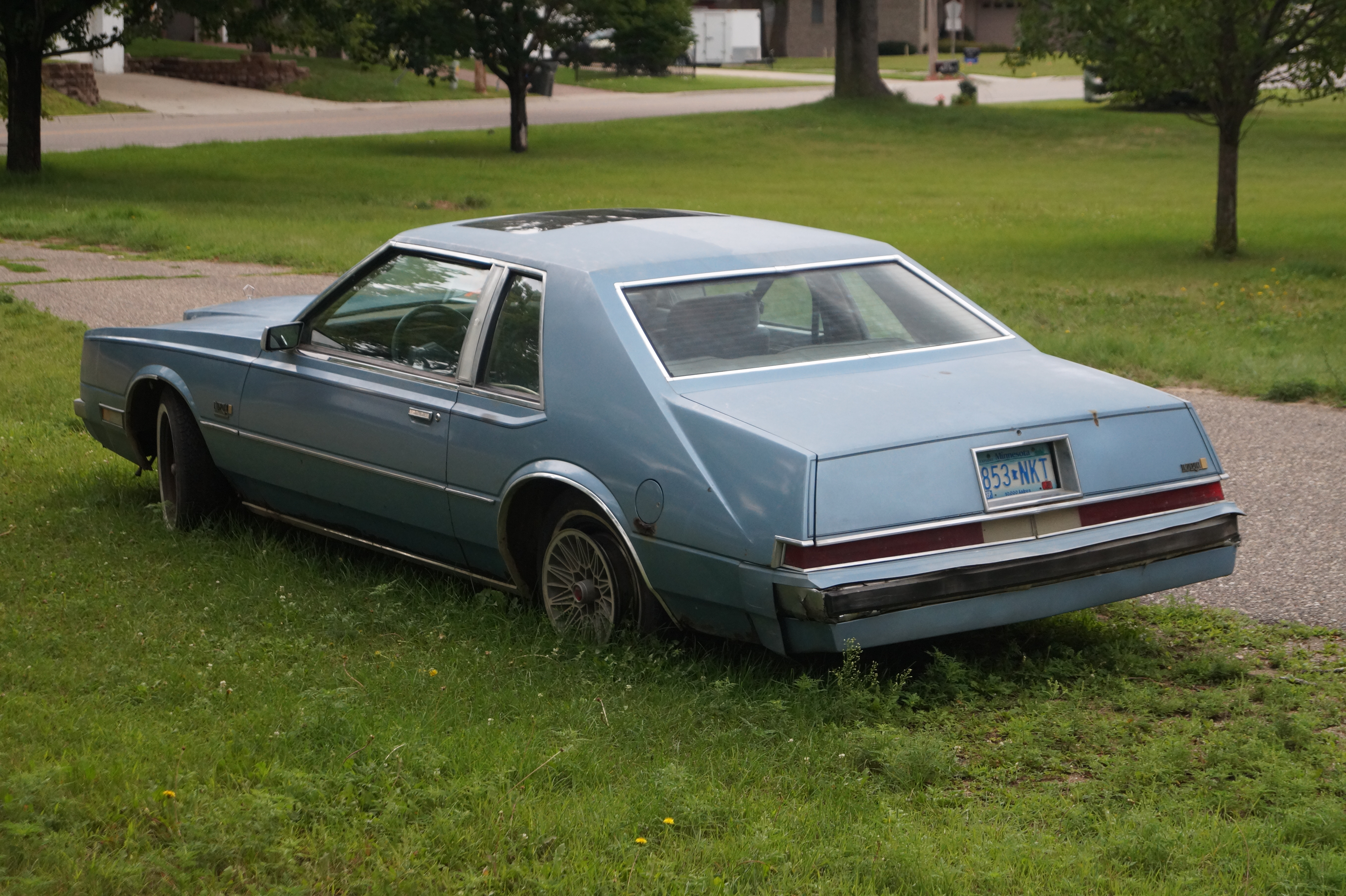 Click here for more car pictures at my Flickr site. Or here for my Car Crazy Tumblr site. Or on Twitter @DVS1mn.